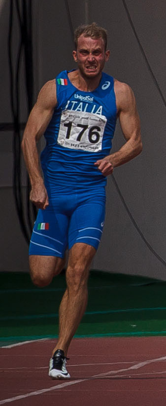 Matteo Galvan at the 2015 Military World Games. Foto: Sgt Johnson Barros